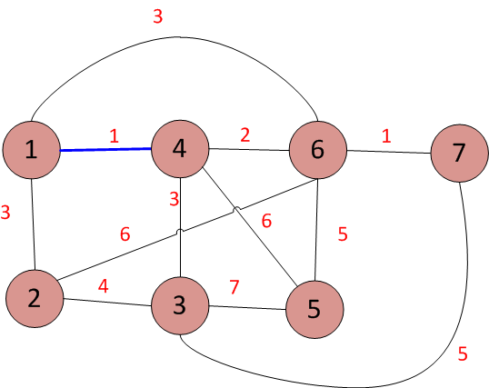 step 1 for debug Kruskal